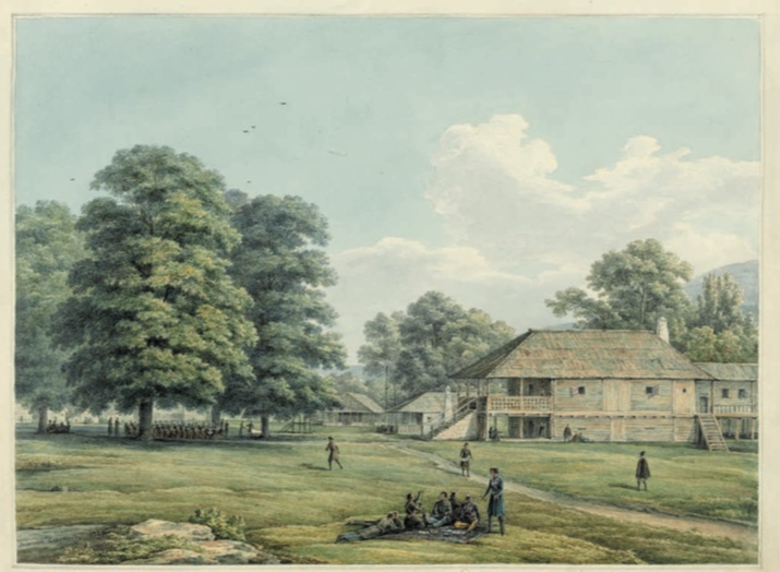 Nikanor Chernetsov, “Maison du prince Dadian en Mingrelie”, pencil and watercolour sketch